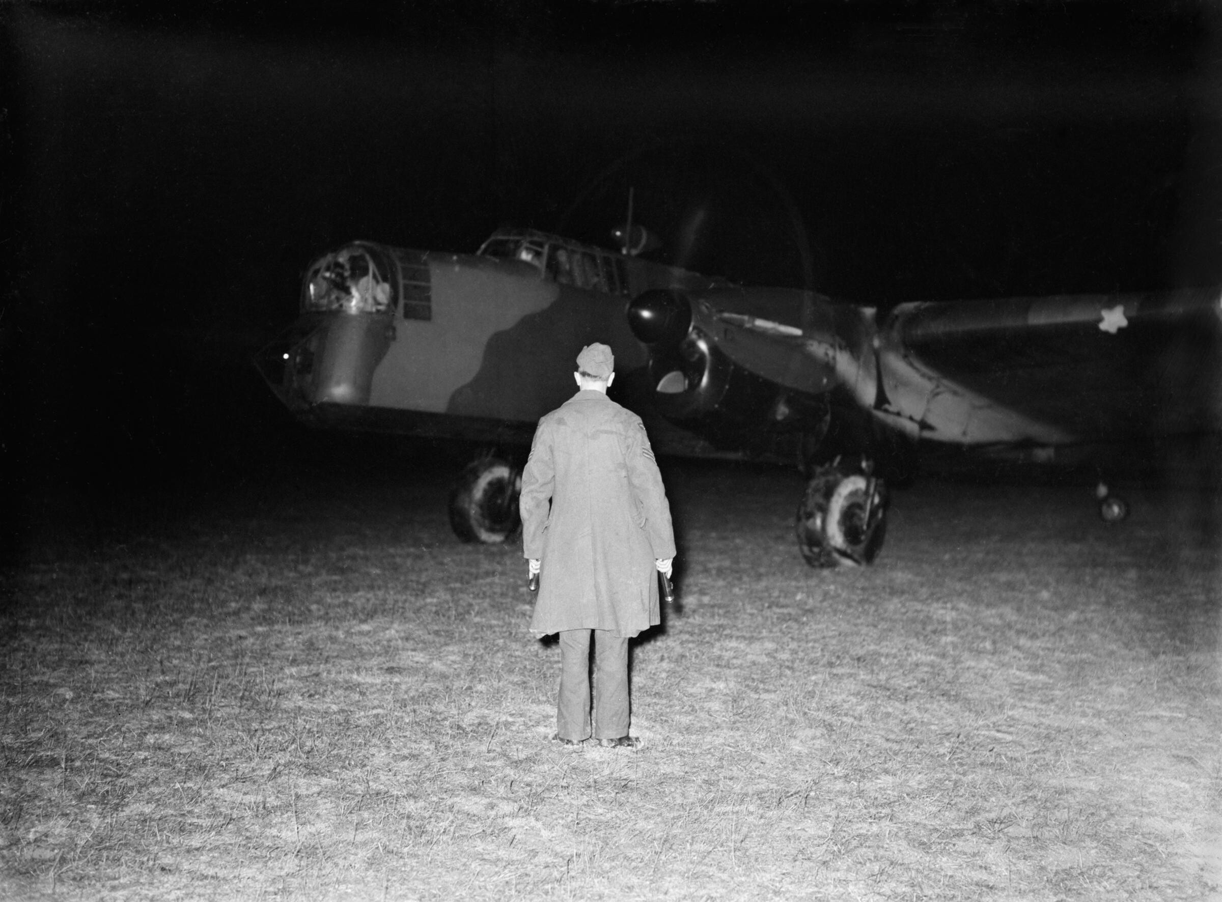 Royal Air Force Bomber Command, 1939-1941. An Armstrong Whitworth Whitley Mark V of a No. 102 Squadron RAF Detachment, prepares for a night take-off from Villeneuve/Vertus, France on a leaflet-dropping ("Nickelling") sortie over Germany.